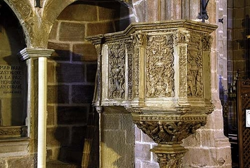 Pulpit, St. Andrew's Church, Villanueva de los Infantes, La Mancha, Ciudad Real, Spain.